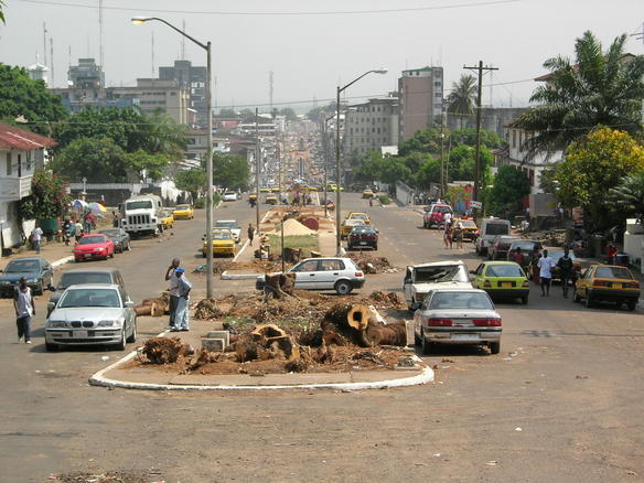 Monrovia, Liberia - Broadstreet seen from the West